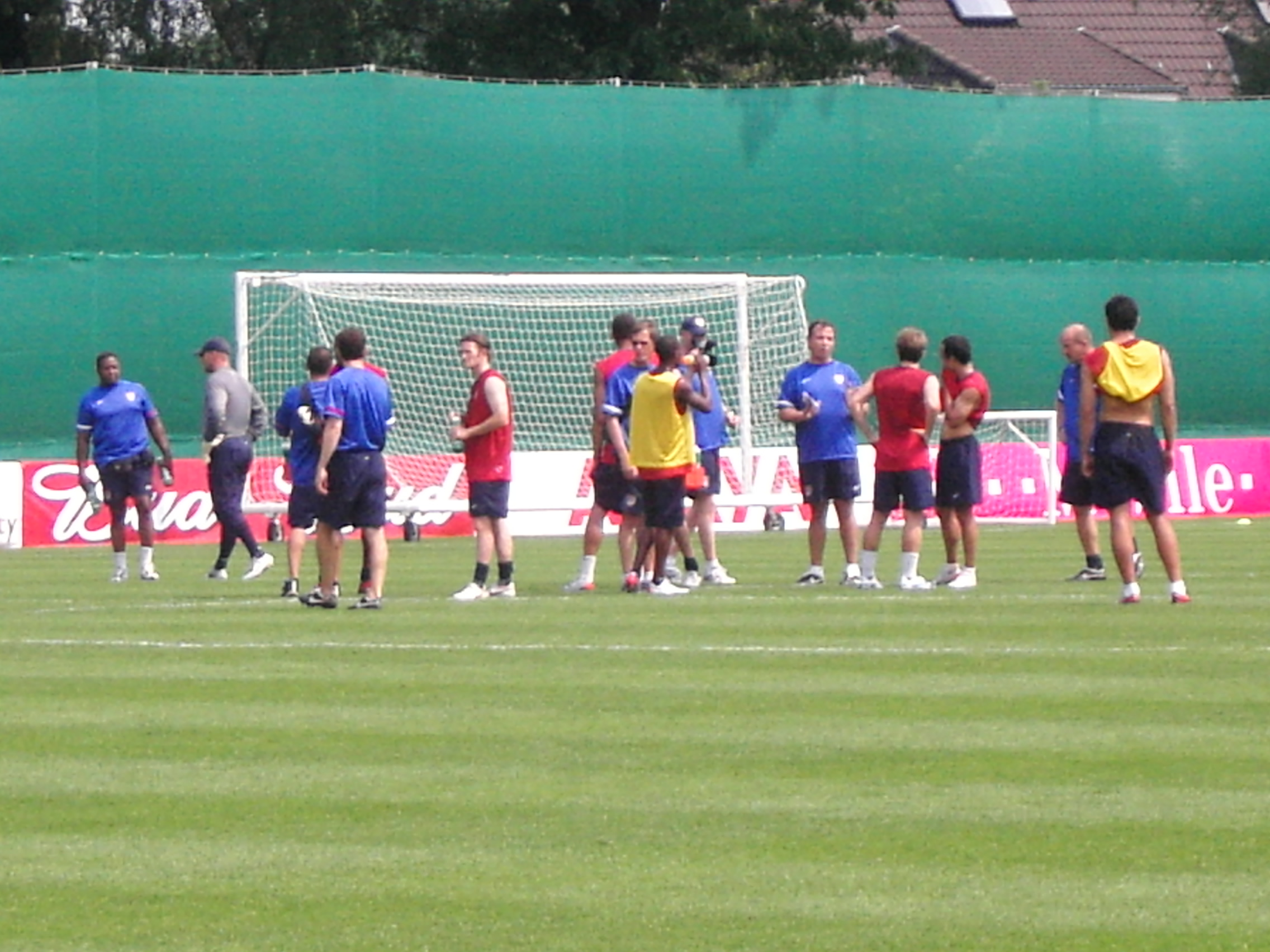 US Team